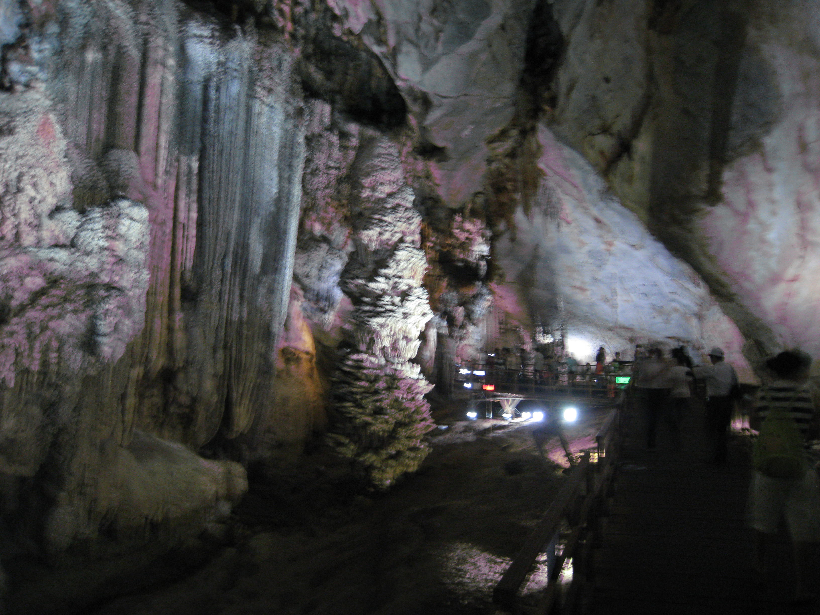 Thien Duong (Paradise) Cave in Phong Nha-Ke Bang National Park, Vietnam